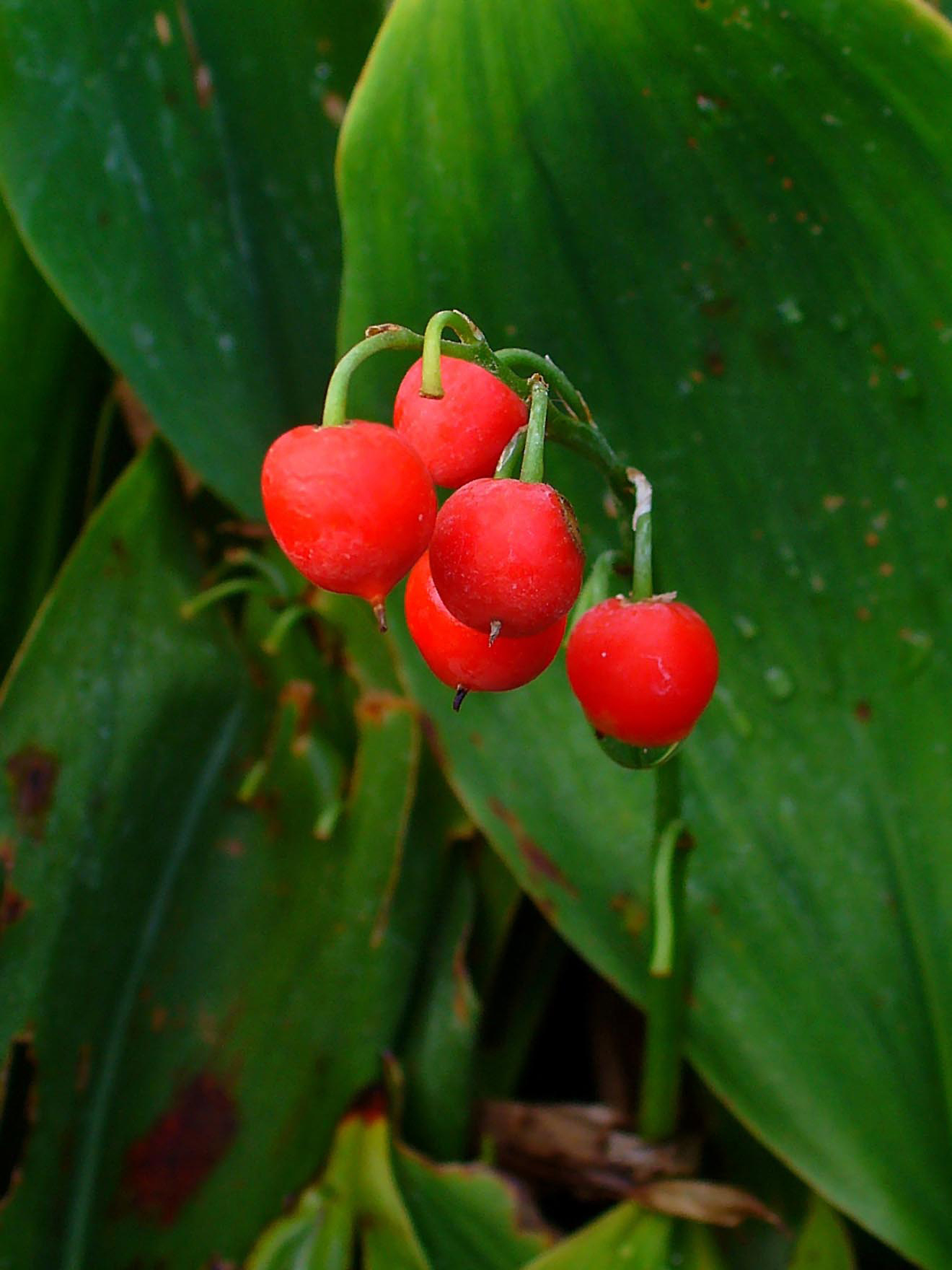 Convallaria majalis, Ruscaceae, Lily of the Valley, fruits; Karlsruhe, Germany. The fresh aerial parts of the blooming plant are used in homeopathy as remedy: Convallaria majalis (Conv.)